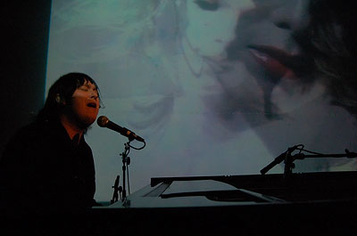 Antony performing at piano